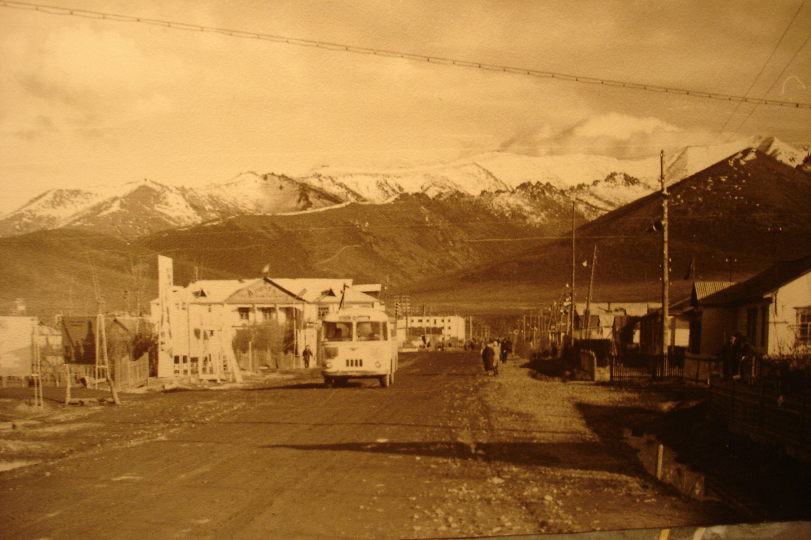 Ust'-Nera urban-type settlement, USSR. Early 1960-s.